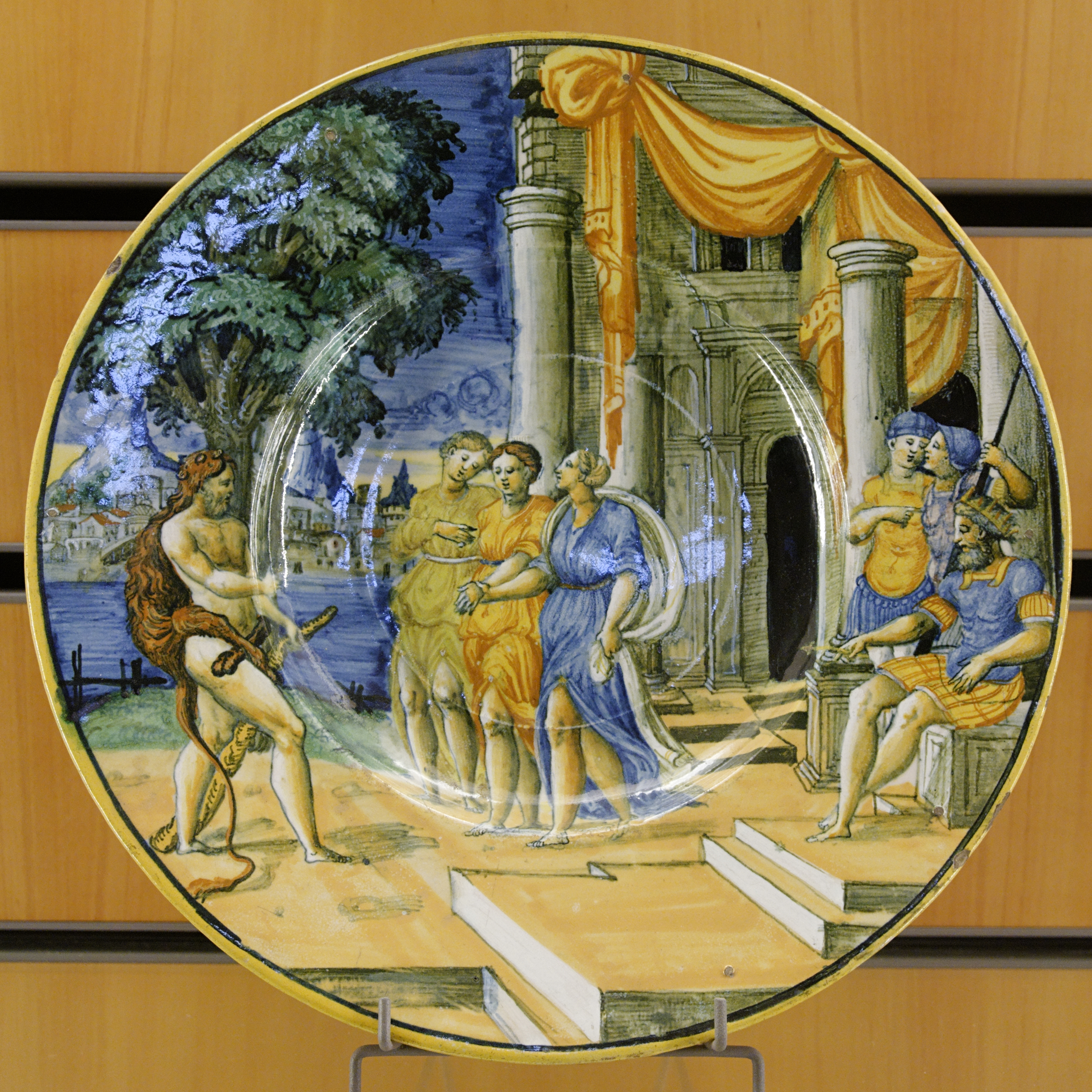 The wedding of Heracles and Dejanira. Maiolica with a istoriato polychrome decoration, Urbino, 16th century.